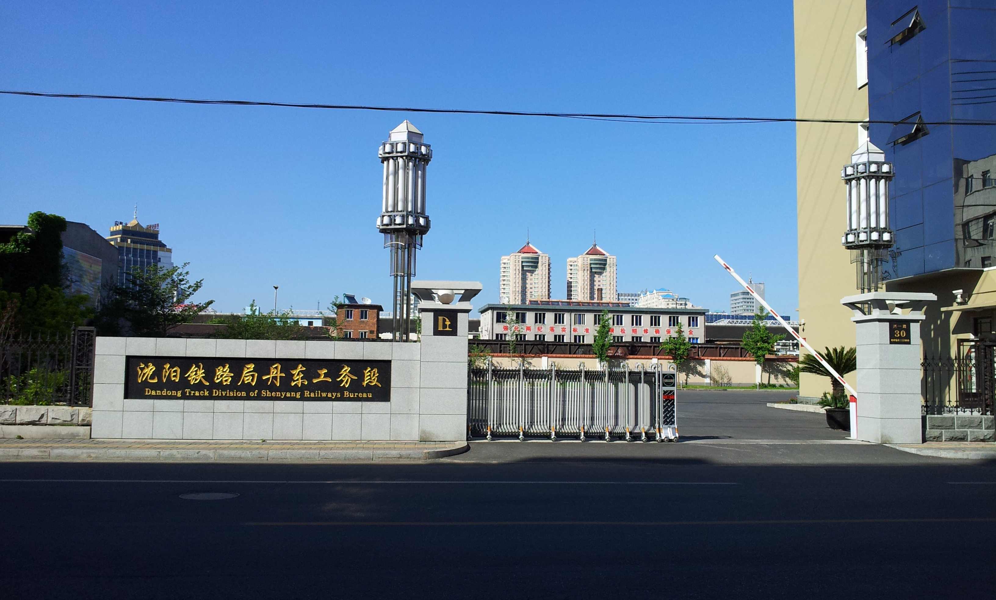 沈阳铁路局丹东工务段 DanDong railway department